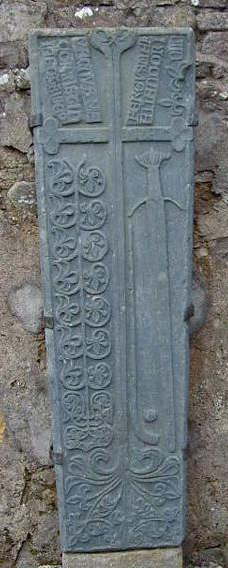 A gallowglass gravestone features a large cross involving botanical symbolism, hurling stick and ball, and a sword. Following description from 'Gallowglass Gravestone Fifteenth or Sixteenth Century [...] The inscription says FERGUS MAK ALLAN DO RINI IN CLACH SA/MAGNUS MEC ORRISTIN IA FO TRI SEO. ‘Fergus Mac Allan made this stone/Magnus Mac Orristin of the Isles under this covering.' [...] The hurley and ball suggest that Magnus was famed for his skill at what was called winter hurling, a form of the game played in the north of Ireland and in Scotland.'